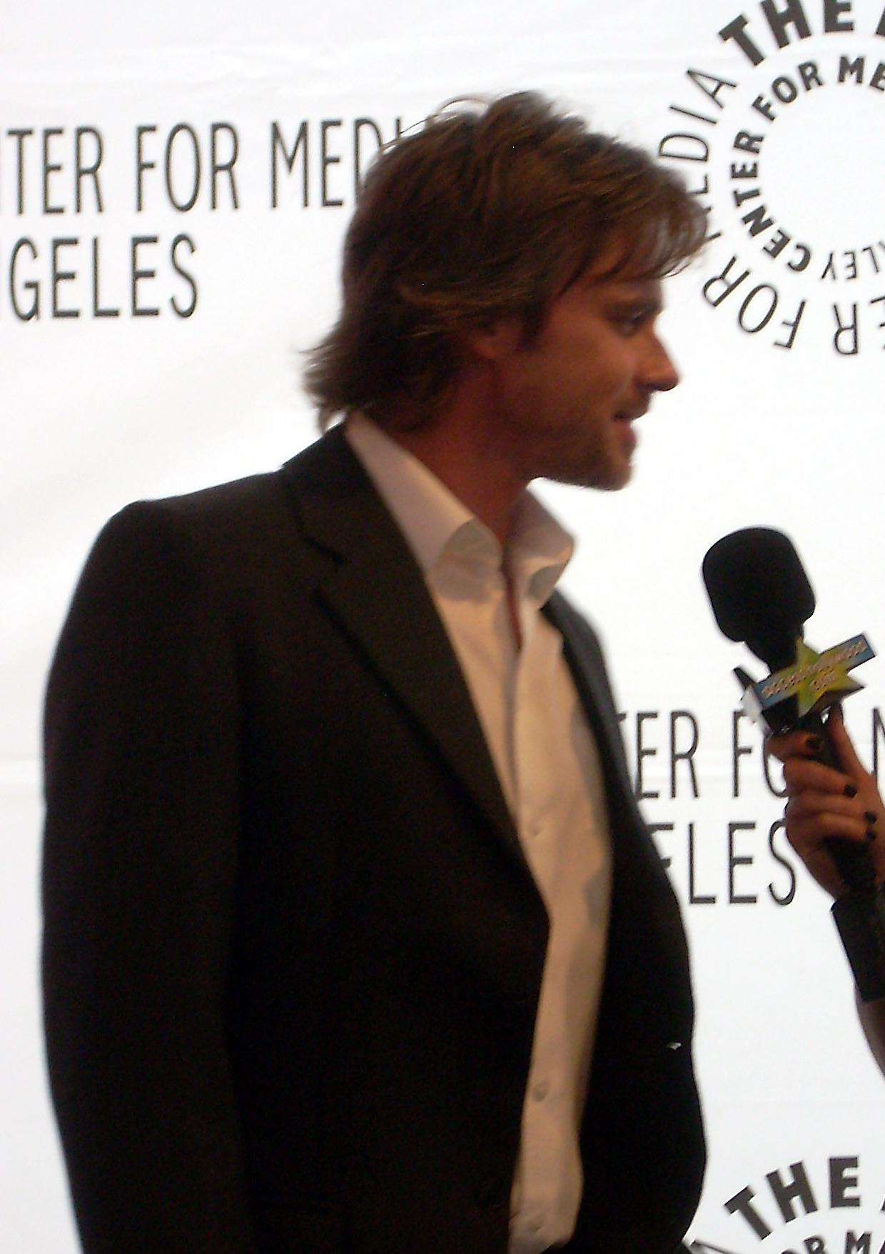 Actor Sam Trammell - "True Blood" 25th Annual Paley Television Festival - ArcLight Cinemas, Los Angeles.